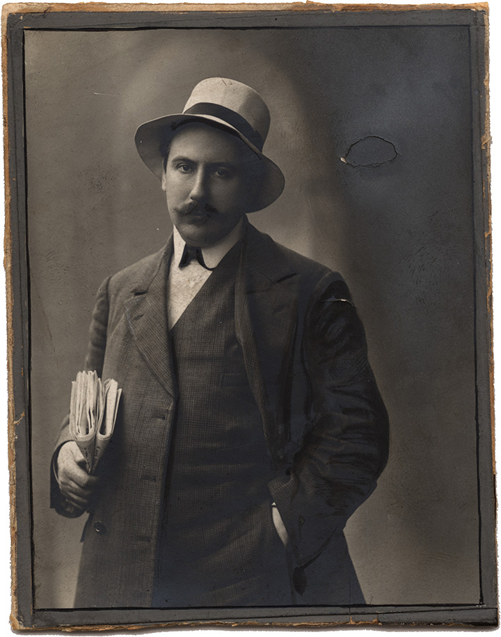 Portrait of Carlo Zangarini, librettist (1874-1943). Photo by unknown, before 1943.